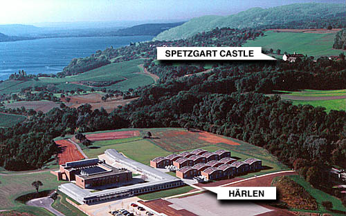 Photo of Schule Schloss Salem campusses of Härlen and Spetzgart Castle. Taken by Eduardo Rivero in 2005 before the addition of new houses. This photo is used on the following page of the Schule Schloss Salem website, but uploading it here is not a copyright violation as it is uploaded by the original author.